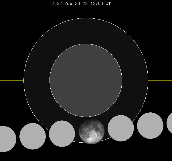 February 2027 lunar eclipse chart of moon's total lunar eclipse path through the earth's shadow. thumb